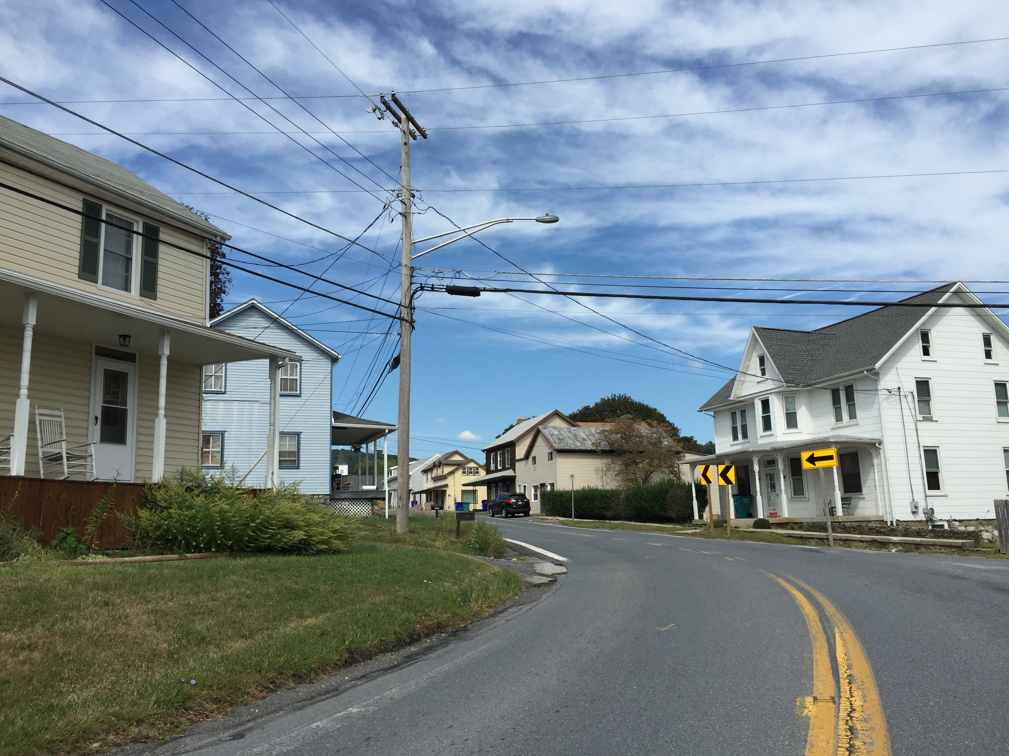 View north along Maryland State Route 550 (Sabillasville Road) at Harbaugh Valley Road in Sabillasville, Frederick County, Maryland